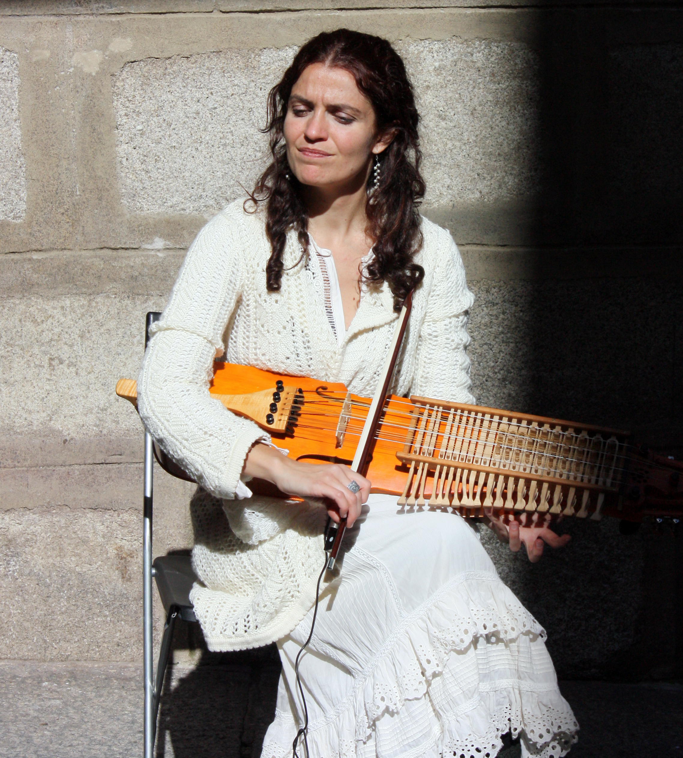 Ana Alcaide with Nyckelharpa in Toledo